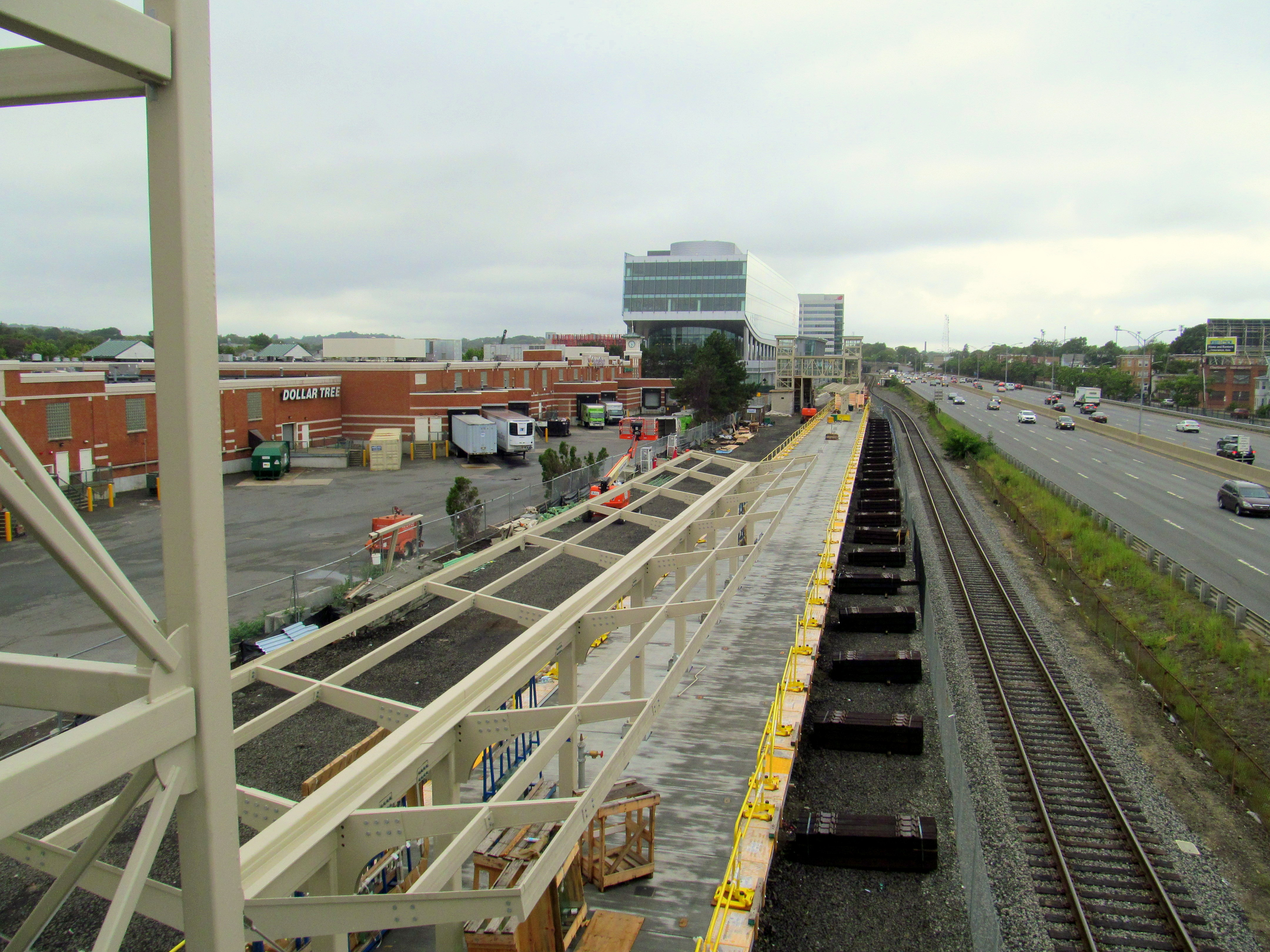 Boston Landing station under construction in September 2016